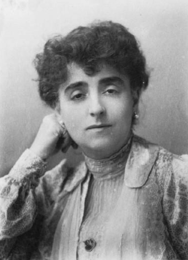 French pianist and composer Cécile Chaminade (1857-1944).